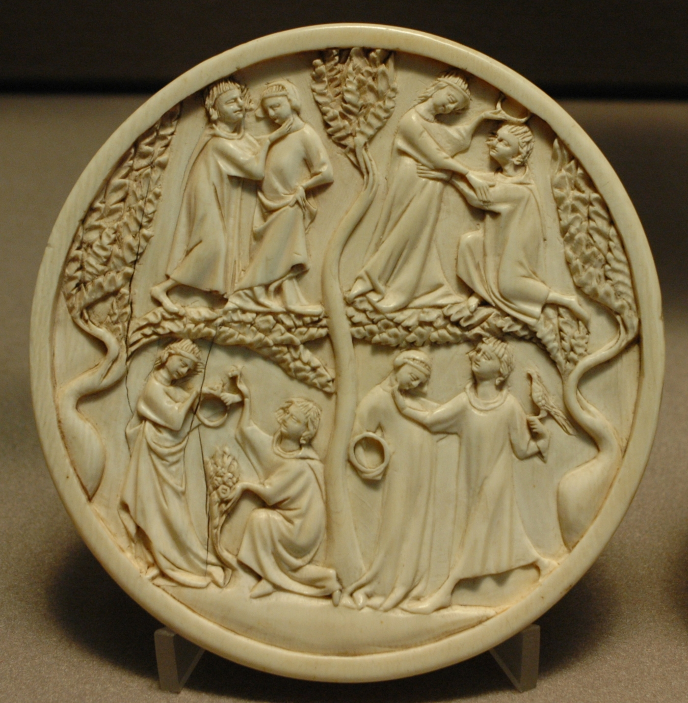 Mirror case, courtly scenes. Paris, first third of the 14th century. Carved ivory.